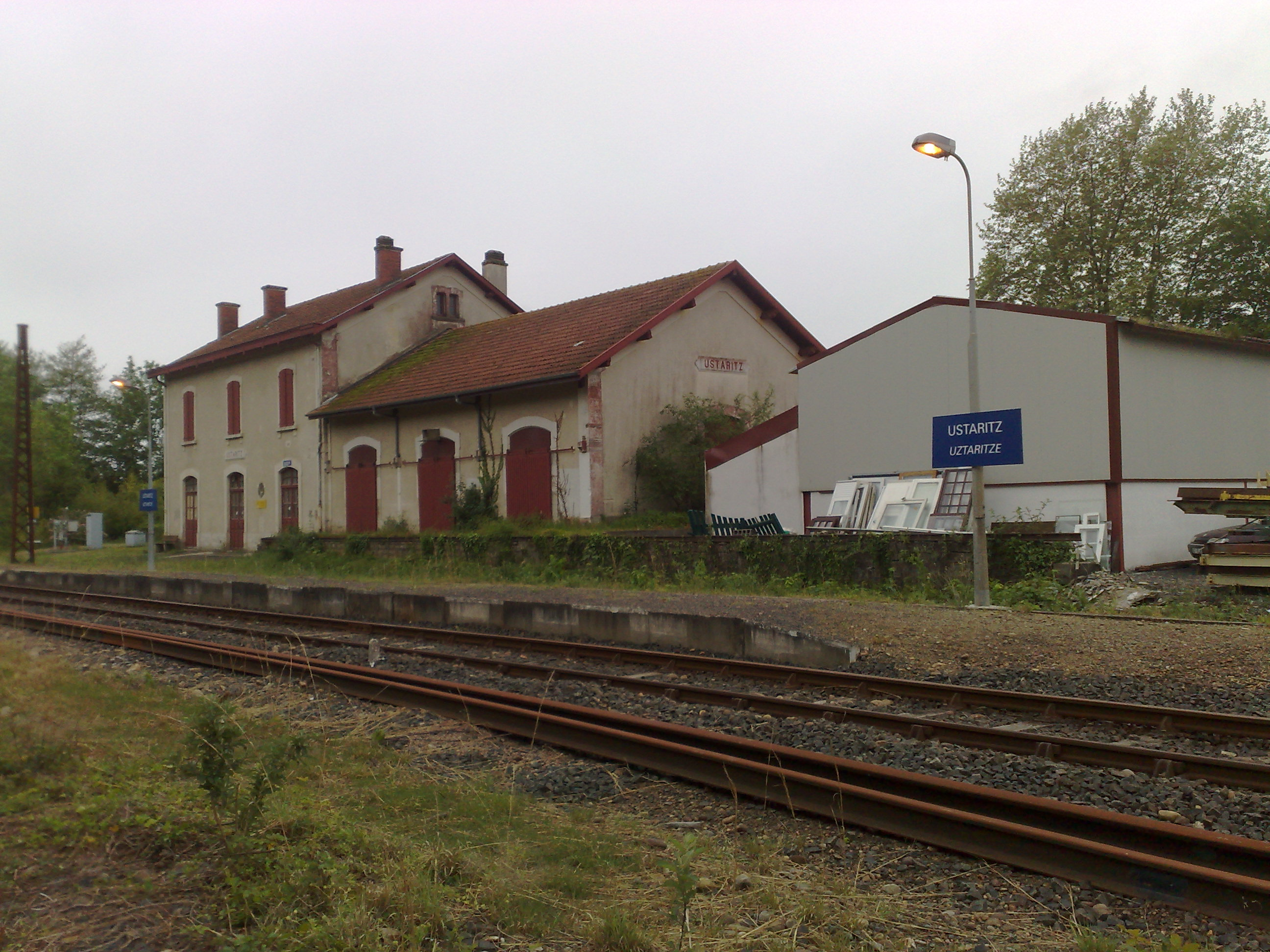 Uztaritze (fr Ustaritz) train station, Lapurdi-Labourd, Basque Country.